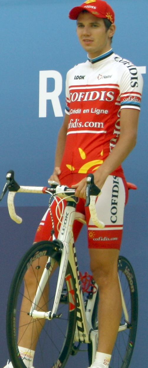 Rein Taaramäe at the team presentation of the 2010 Tour de France in Rotterdam